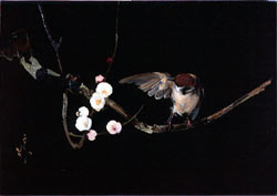 Sparrow in Plum, by Kawamura Kiyoo, Nakagawa-machi Bato Hiroshige Museum of Art, Nakagawa, Tochigi, Japan